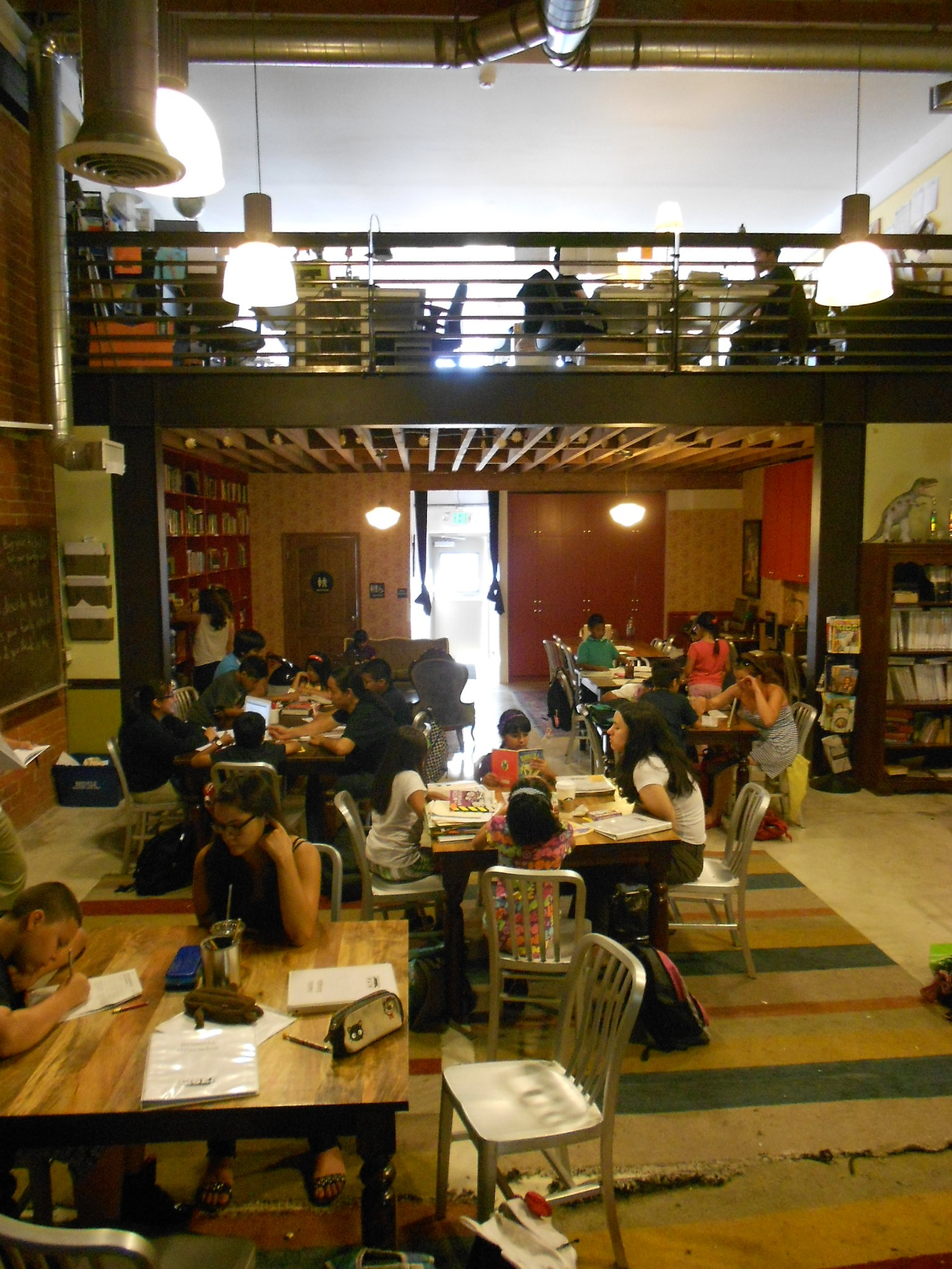 After school tutoring at 826LA on 5/15/2012.